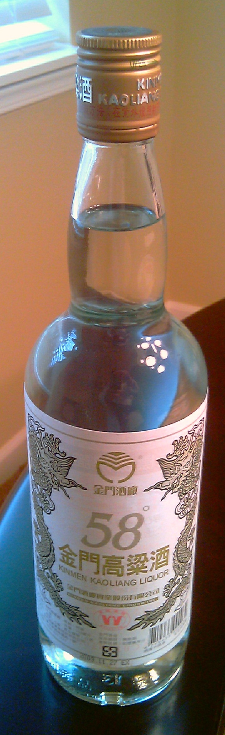 58% Kinmen Kaoliang, photo by Jim Gilsinan IV